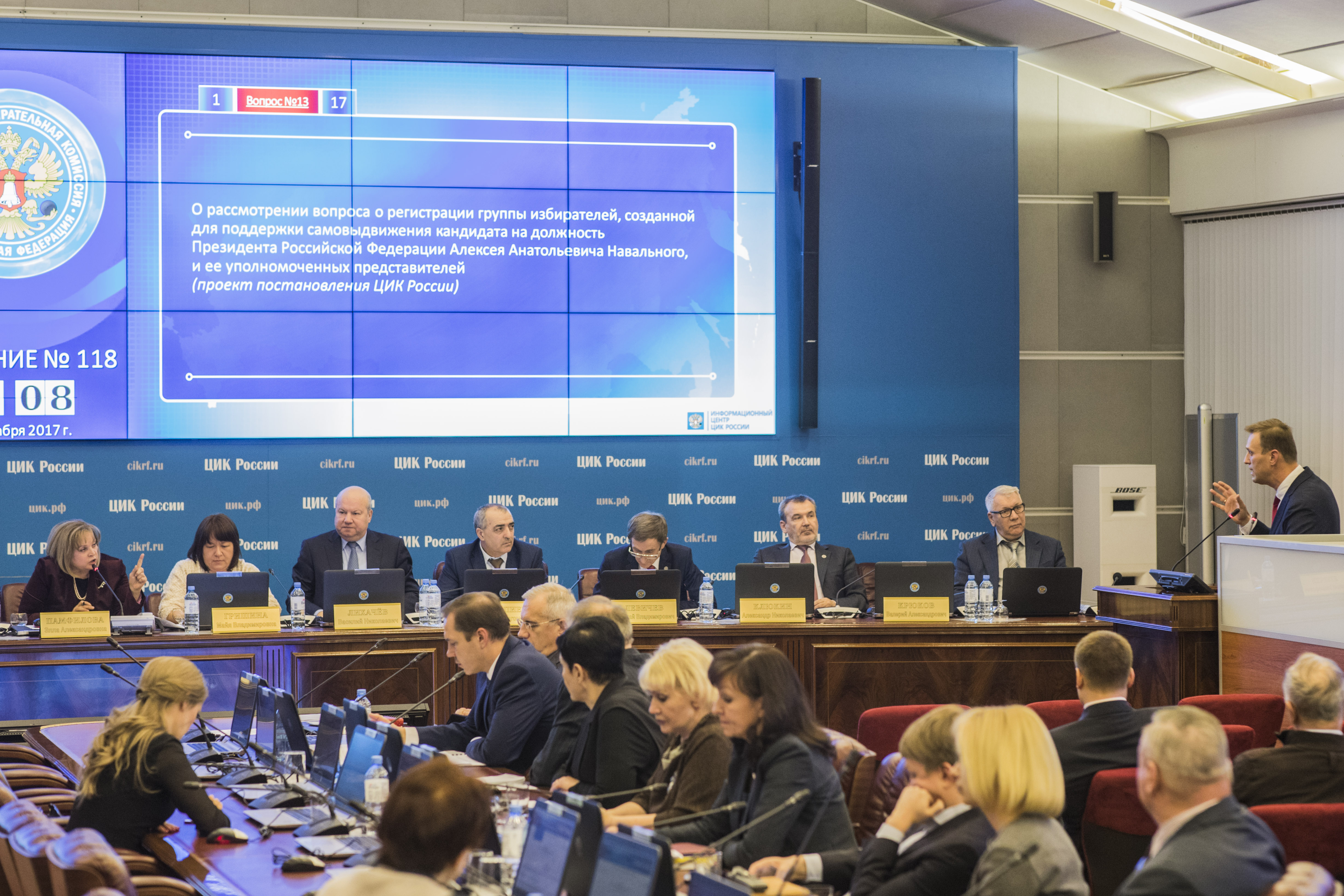 Alexei Navalny argues with Russian Central Election Commission's board which is about to deny his right to be in the ballot on the upcoming presidential elections